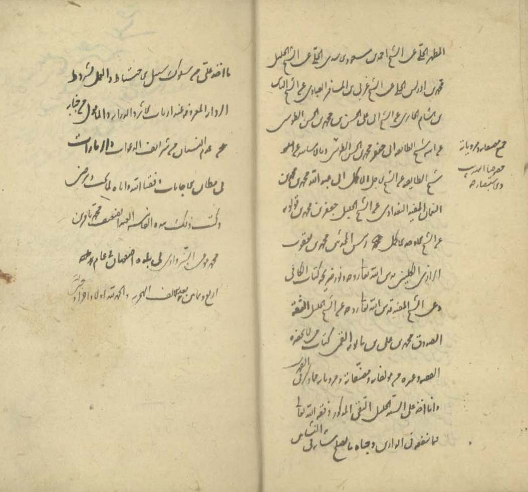 Authorization Letter from Muhammad Baqir al-Sabzevari to Sayed Muhammad ben Muhammad Baqir Isfahani in 1672 AD - 1084 A.H. in Isfahan. Islamic Consultative Assembly Library, Museum and Documentation Centre Number: 15312/2 Pages 29 to 36 Handwritten of Mohaqiq Sabzevari – Muhammad Baqir Sabzevari